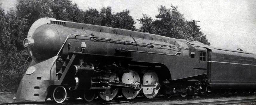 Photo of the 4-6-4 Hudson locomotive for the New York Central Mercury streamliners.